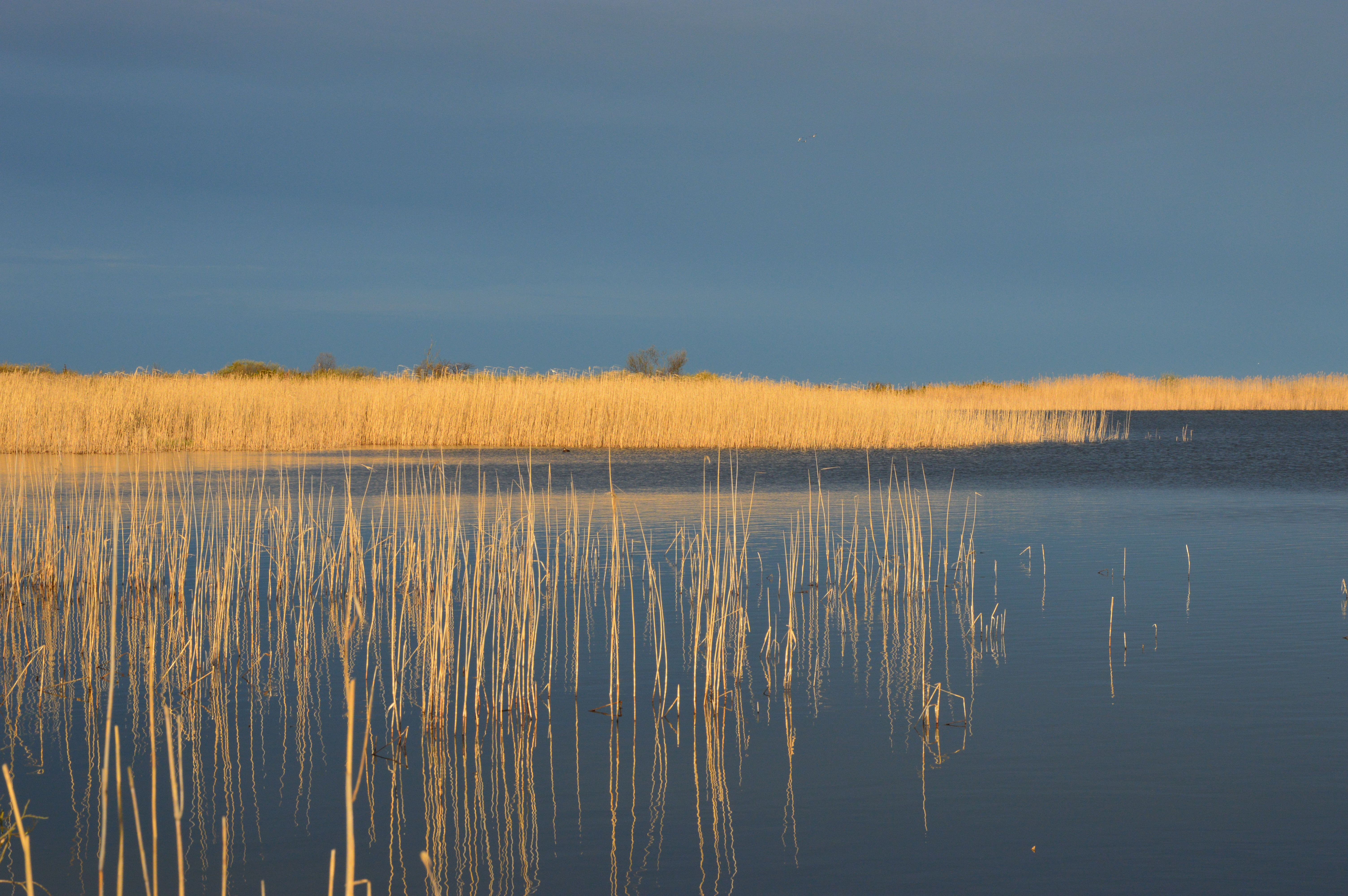 Early morning in Inahamne Lake. Osmussaar, Estonia.